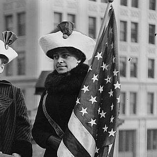 Bain News Service,, publisher. Mrs. J. Hardy Stubbs, Miss Ida Craft, Miss Rosalie Jones circa 1912-1913 [between 1910 and 1915] 1 negative : glass ; 5 x 7 in. or smaller. Notes: Title from data provided by the Bain News Service on the negative. Photo shows 3 suffragettes with bag "Votes for Women pilgrim leaflets." Forms part of: George Grantham Bain Collection (Library of Congress). Format: Glass negatives. Repository: Library of Congress, Prints and Photographs Division, Washington, D.C. 20540 USA, General information about the Bain Collection is available at Persistent URL: Call Number: LC-B2- 2472-12